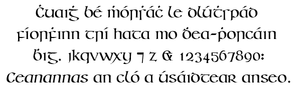 I made this image myself with my own font. Evertype 18:55, 24 August 2006 (UTC)